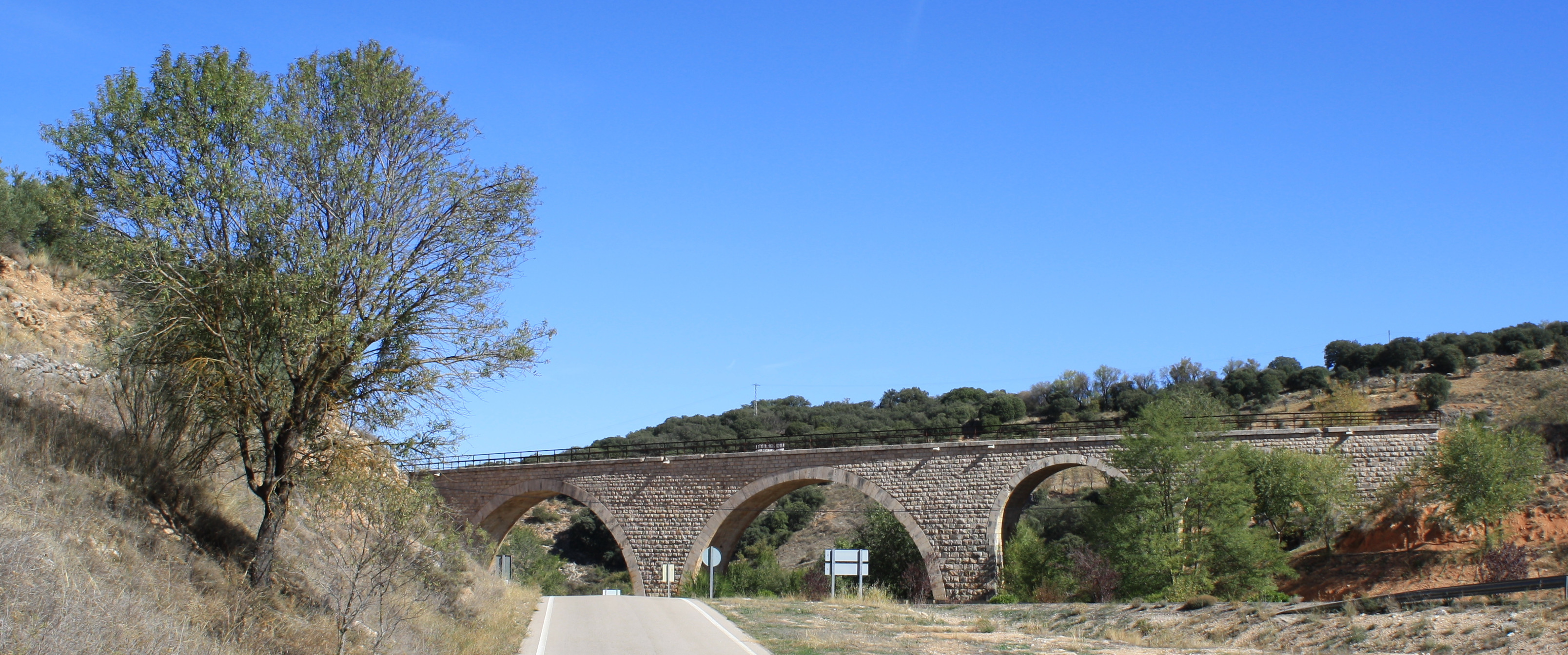 Viaduct from Tajuña Railway for Mondéjar, Guadalajara, Spain. Today, rail trail.